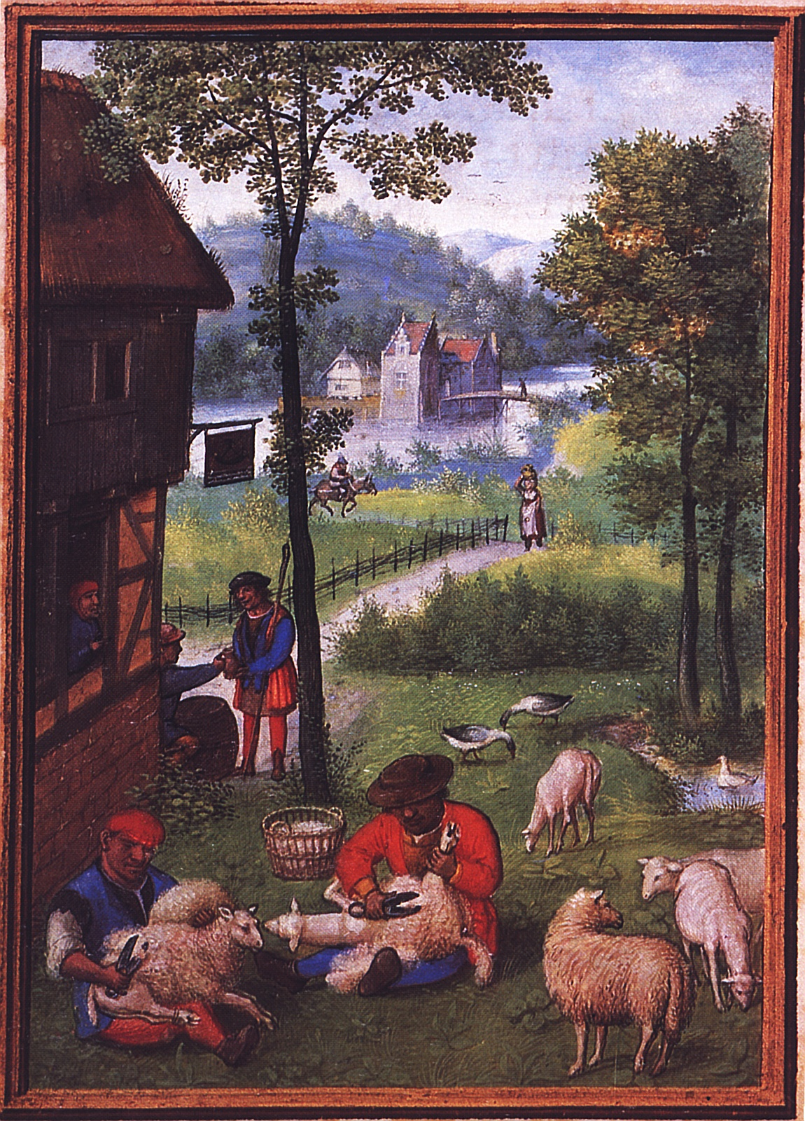 Labors of the Months: June, from a Flemish Book of Hours (Bruges)